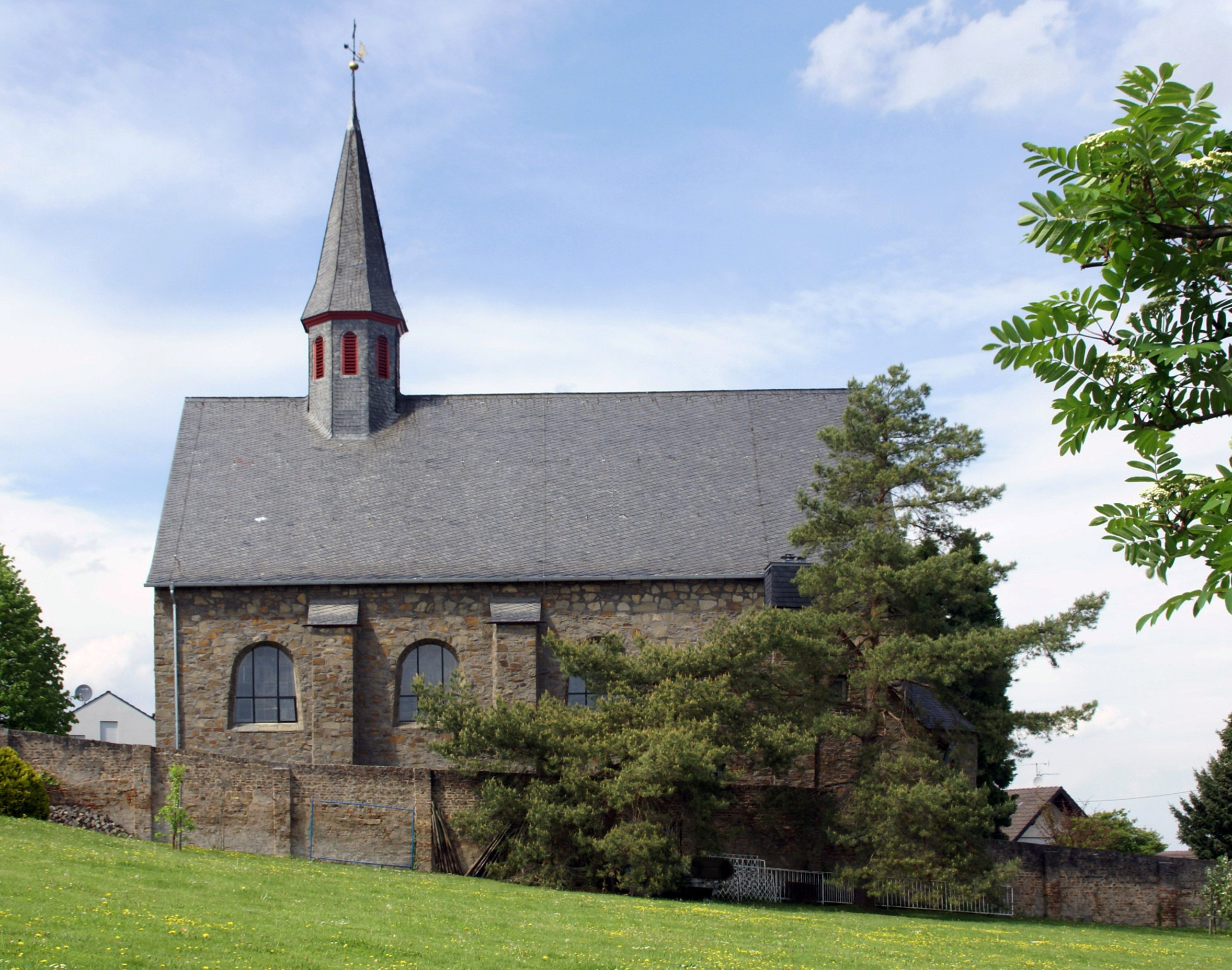 Catholic church St. Mariä Himmelfahrt in Oedekoven